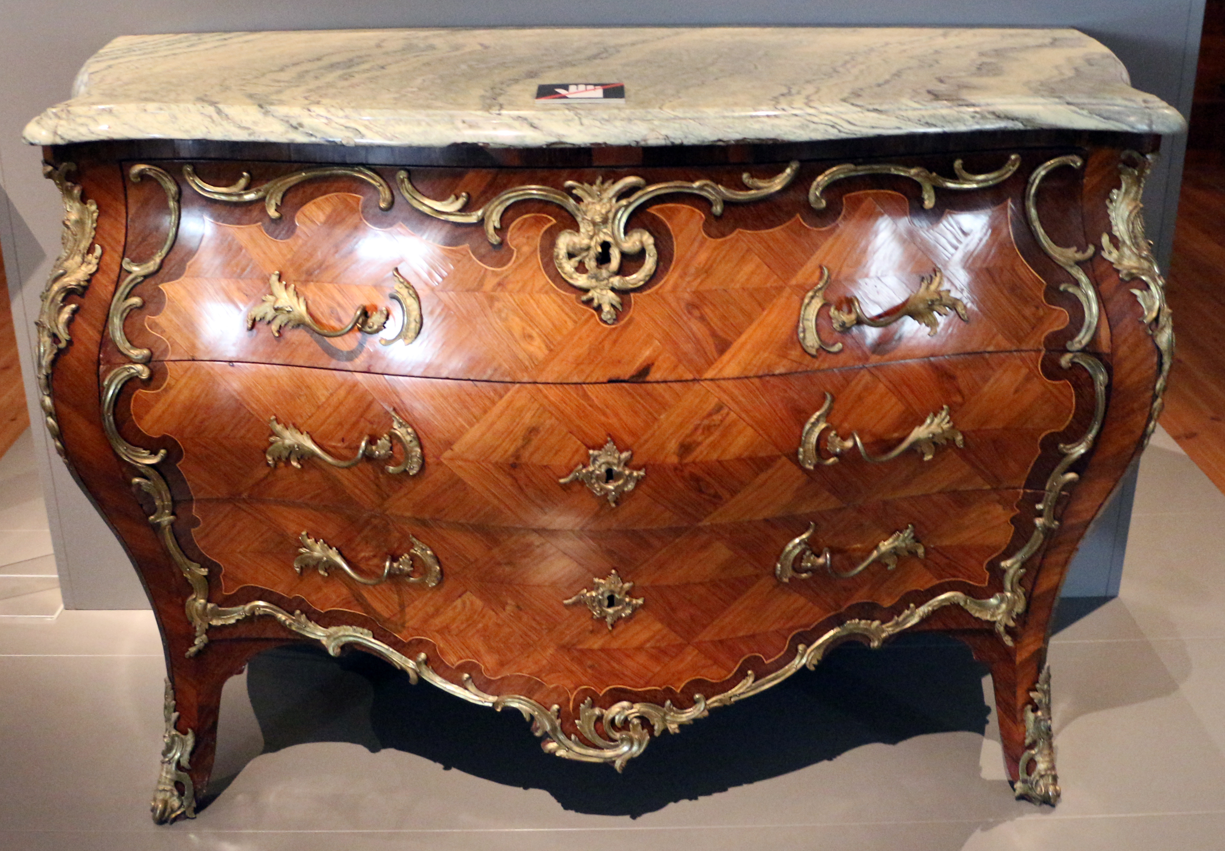 Miscellany in the National Museum of Finland